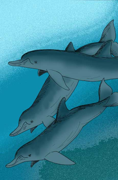 Reconstruction of the aberrant Pliocene dolphin, Australodelphis mirus, of Antarctica